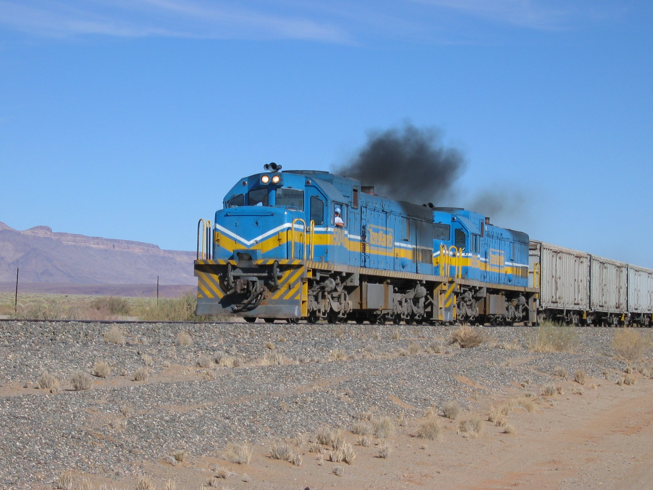 TransNamib train south of Keetmanshoop, Klein Karras mountains in background